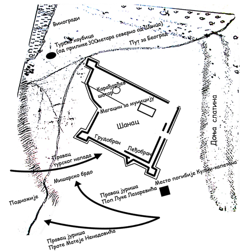 Plan of Mišar battle.